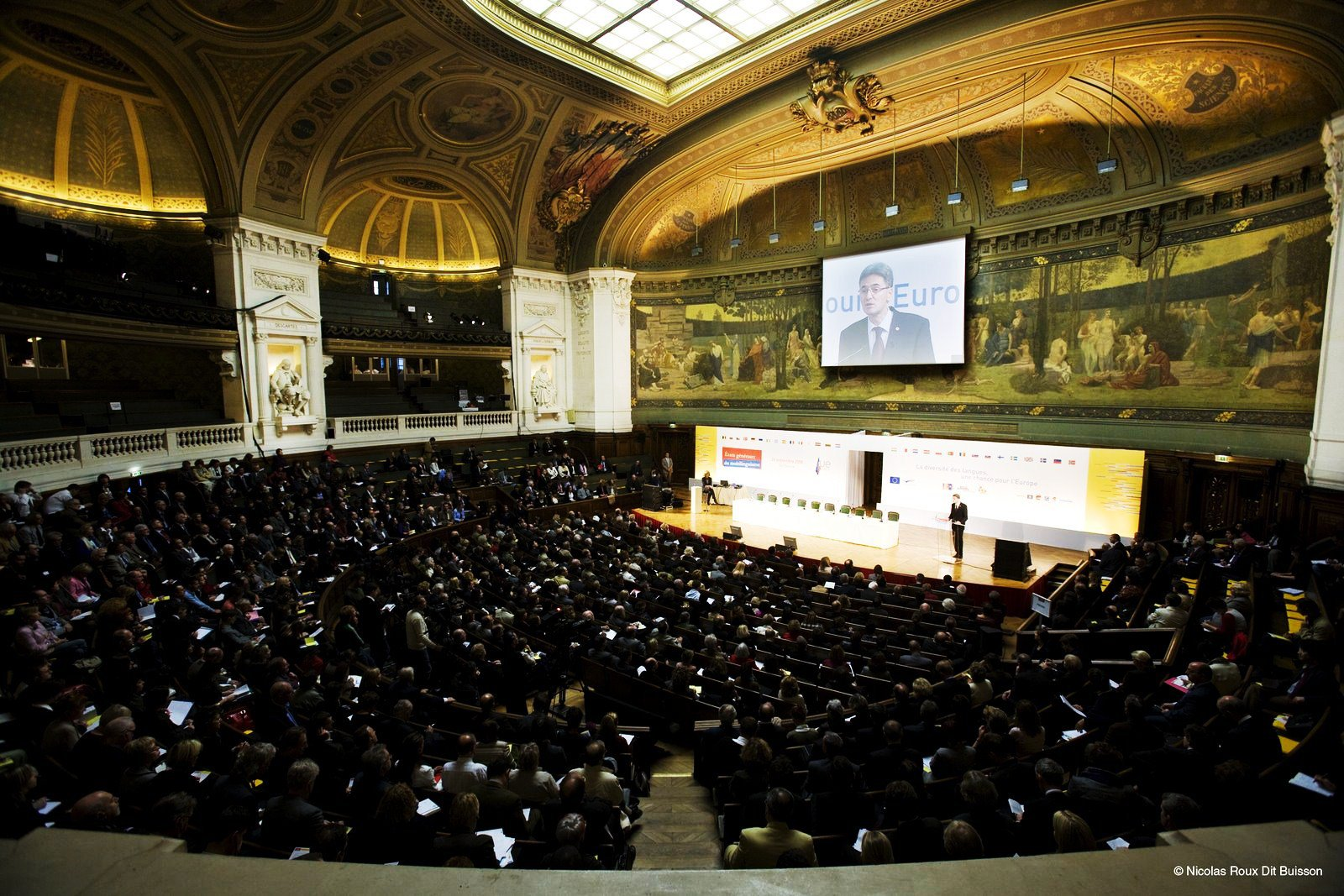 Gran Auditorio